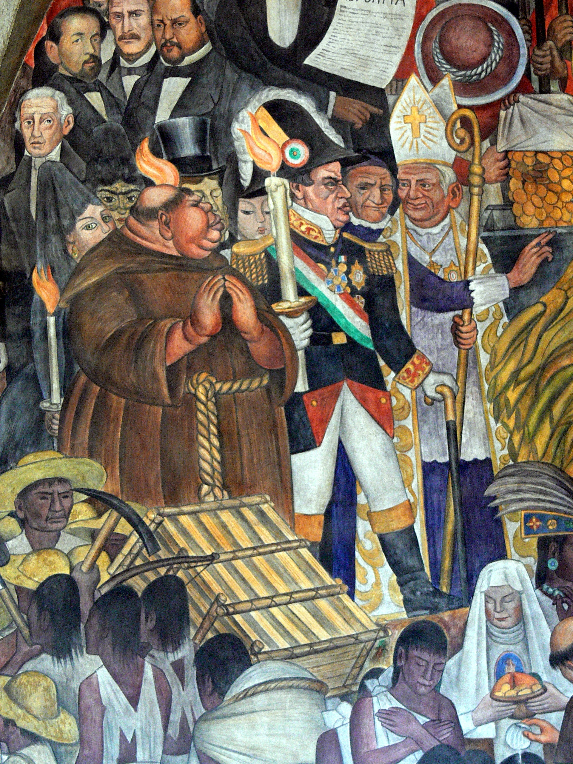 Mexico City - Palacio Nacional. Mural by Diego Rivera showing the History of Mexico: Detail showing church and military as anti-revolutionary forces